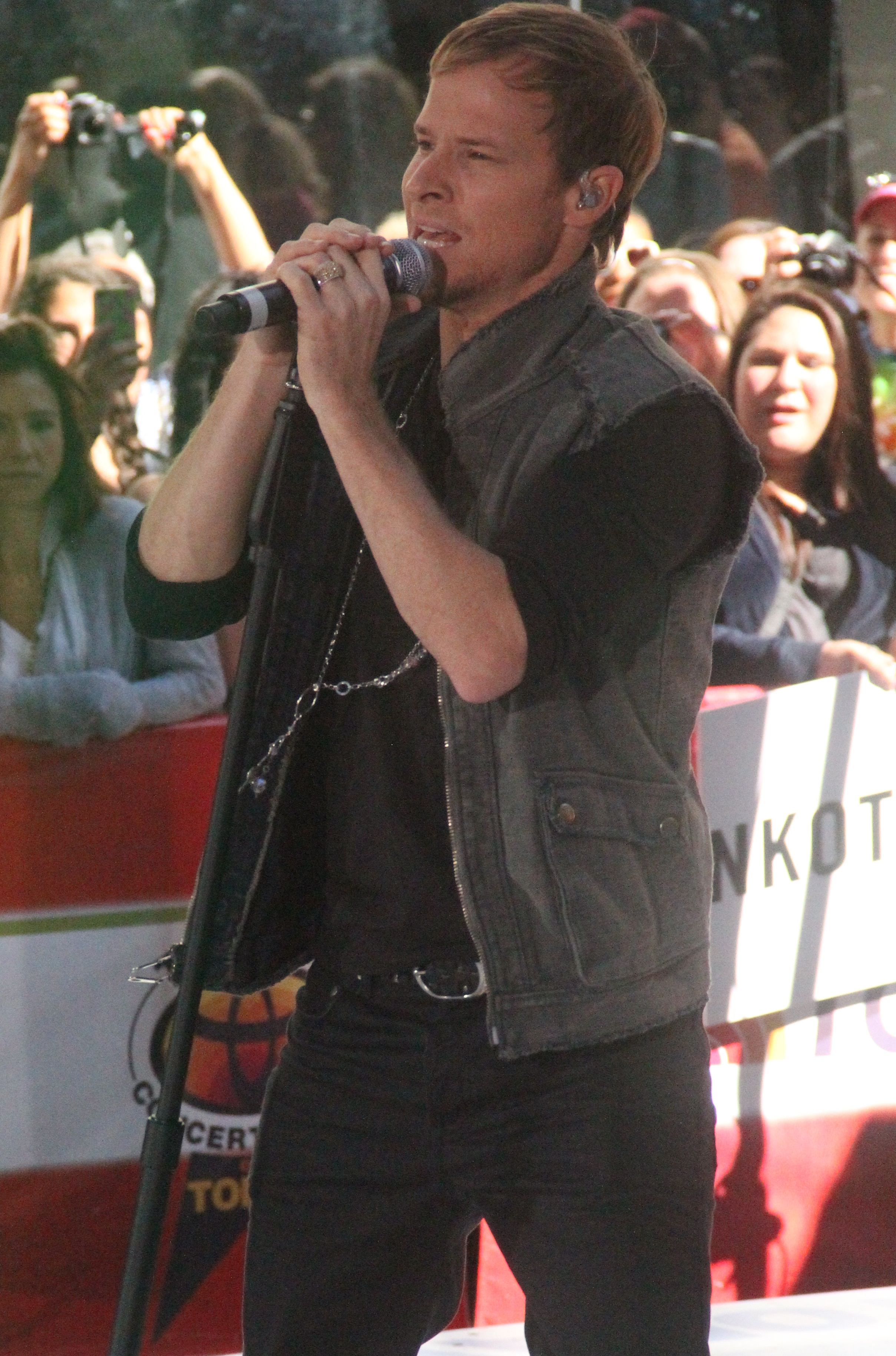 Brian Littrell at the The Today Show in New York City in June 2011